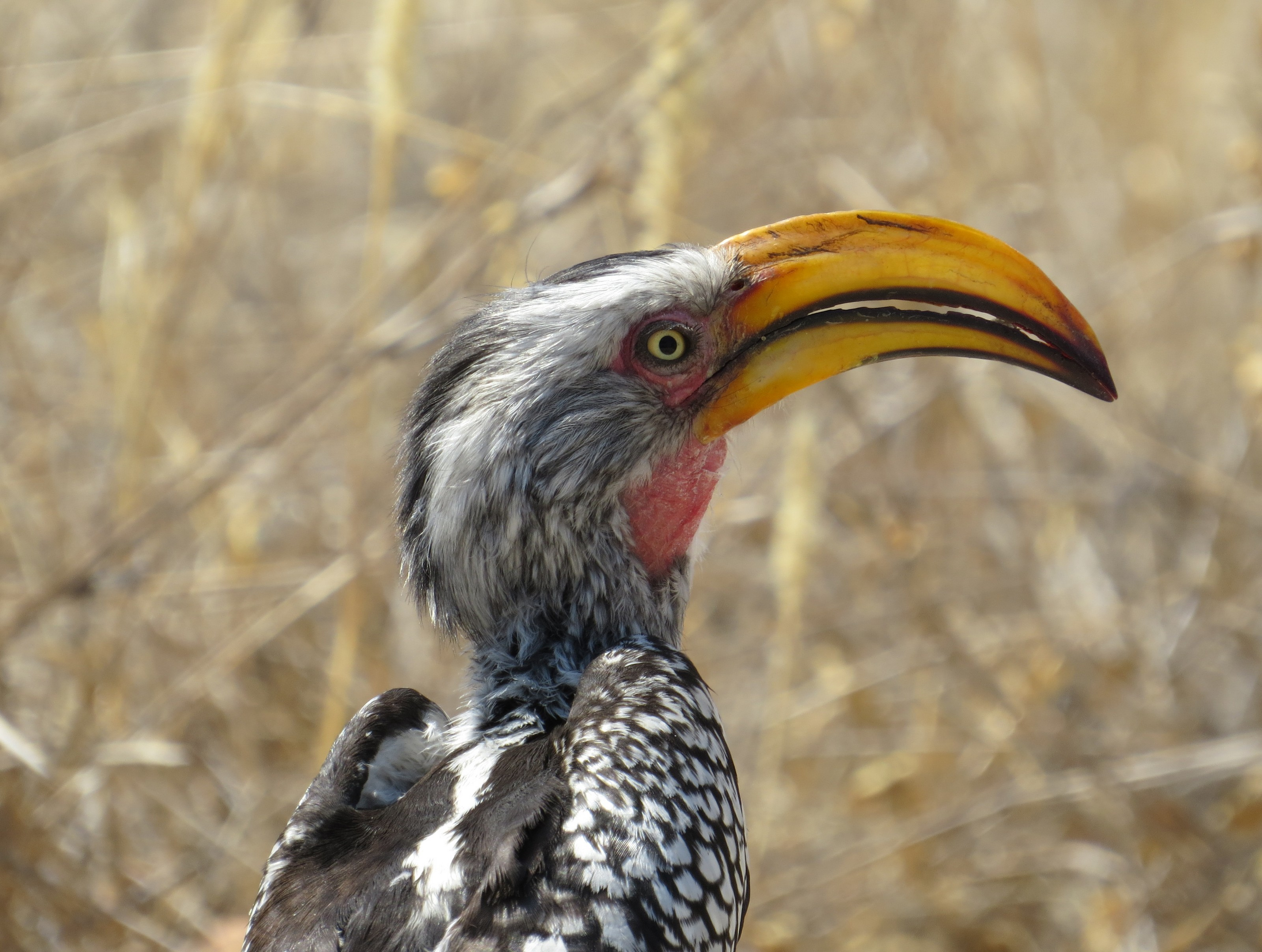 Southern yellow-billed hornbill in Etosha national park, Namibia.